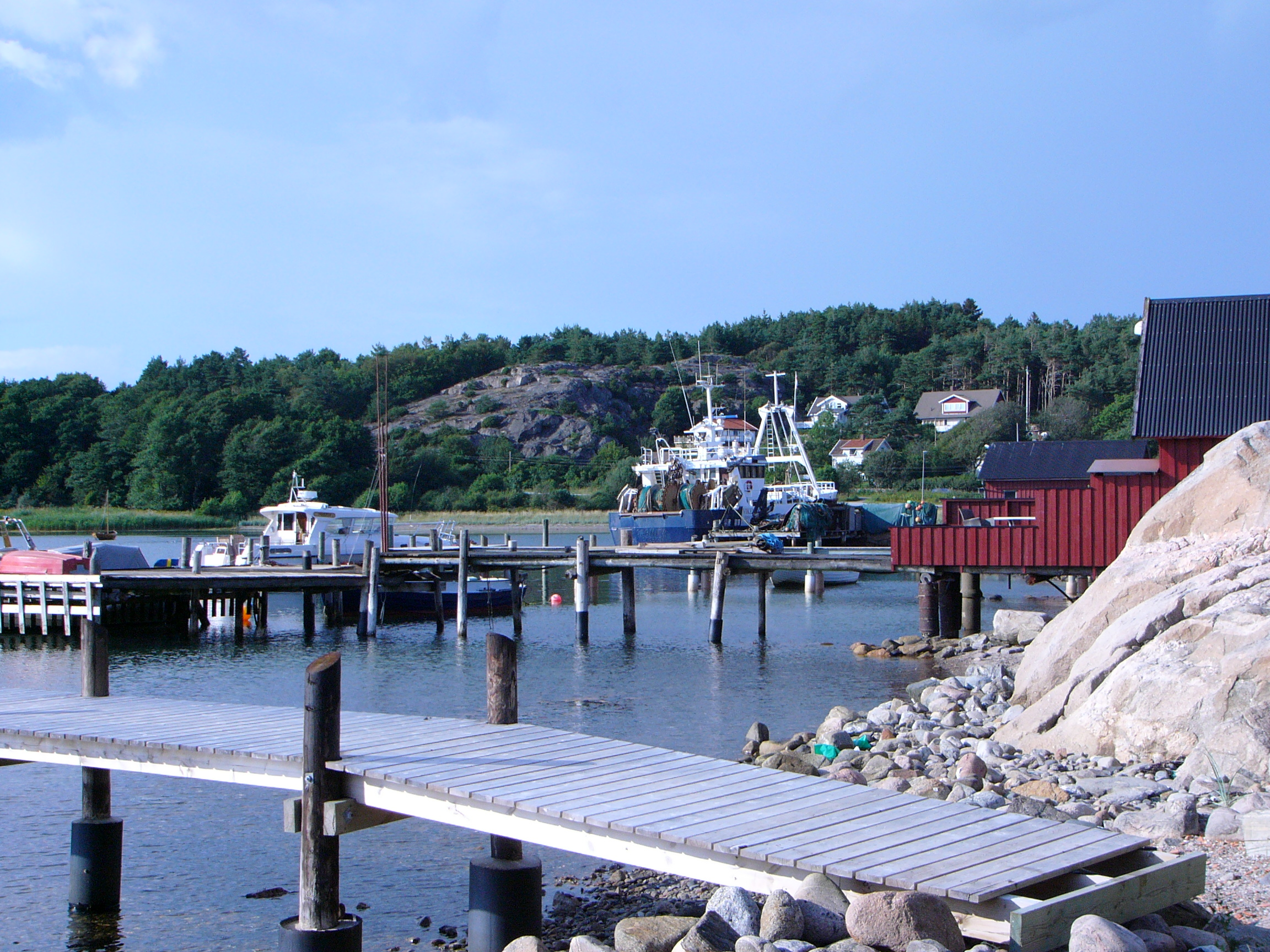 Edsvik, Tanum municipality, Sweden